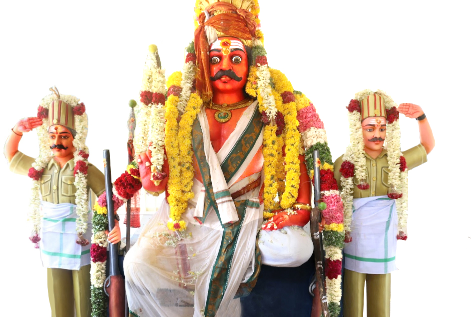 Pavadairayan at Om Sri Pavadairayan Temple, Ayipettai, Cuddalore.